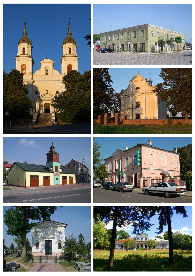 Żelechów poster